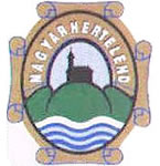 Coat of arms of Magyarhertelend, Hungary